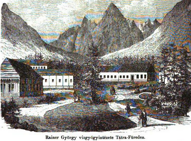 Public baths of Rainer György